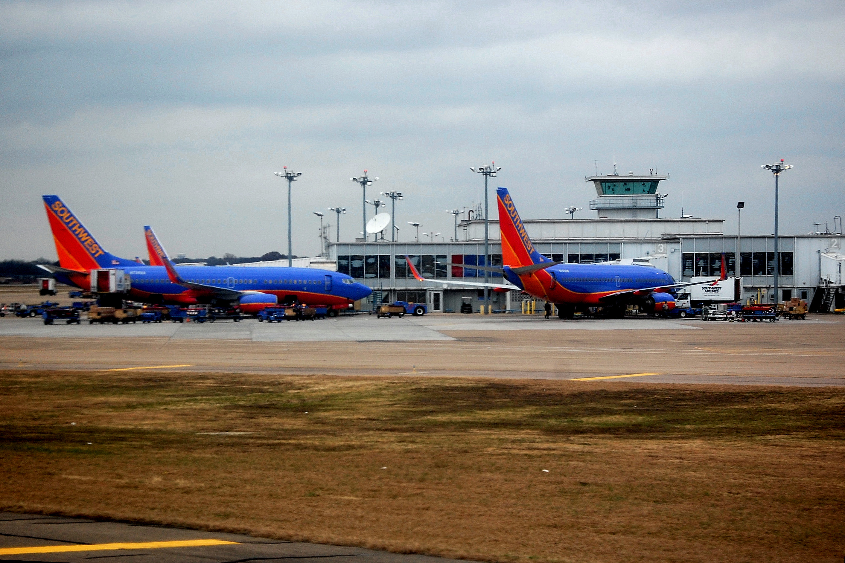 West Concourse at Dallas Love Field - 2009